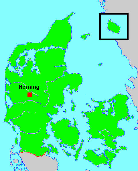 Map of Denmark with the location of the city Herning.